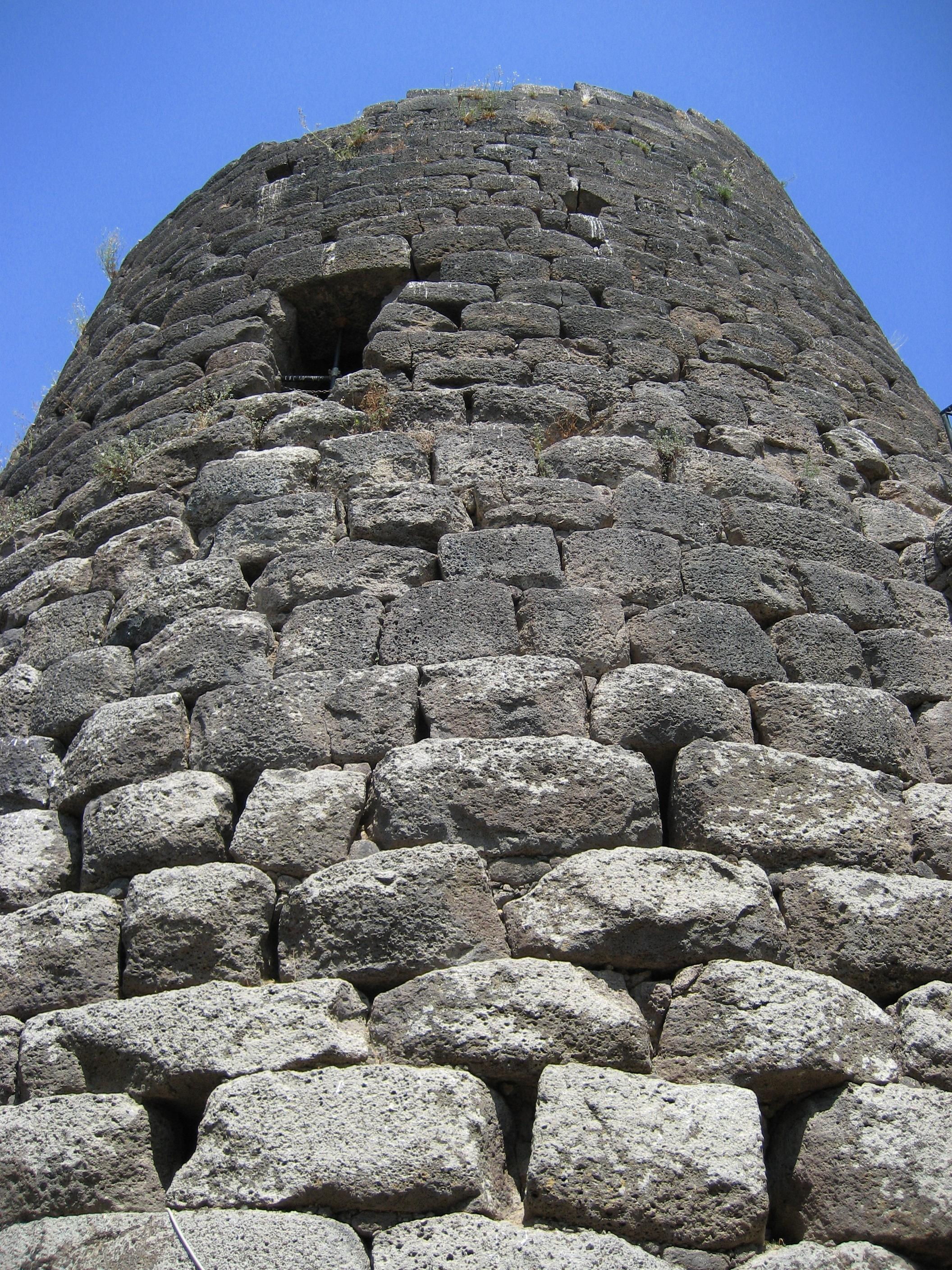 Central tower of the Nuraghe at Saint Antine of Torralba on the island of Sardinia.